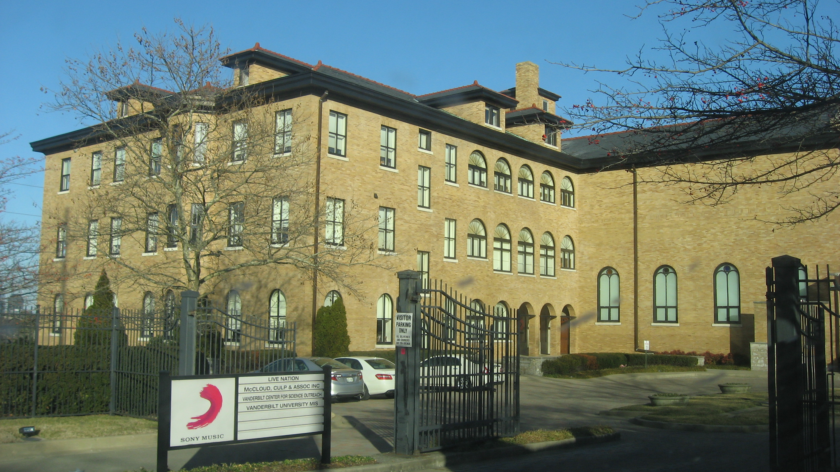 Street view of the Little Sisters of the Poor Home for the Aged, located at 1400 Eighteenth Avenue in Nashville, Tennessee, United States. Built in 1916, it is listed on the National Register of Historic Places.